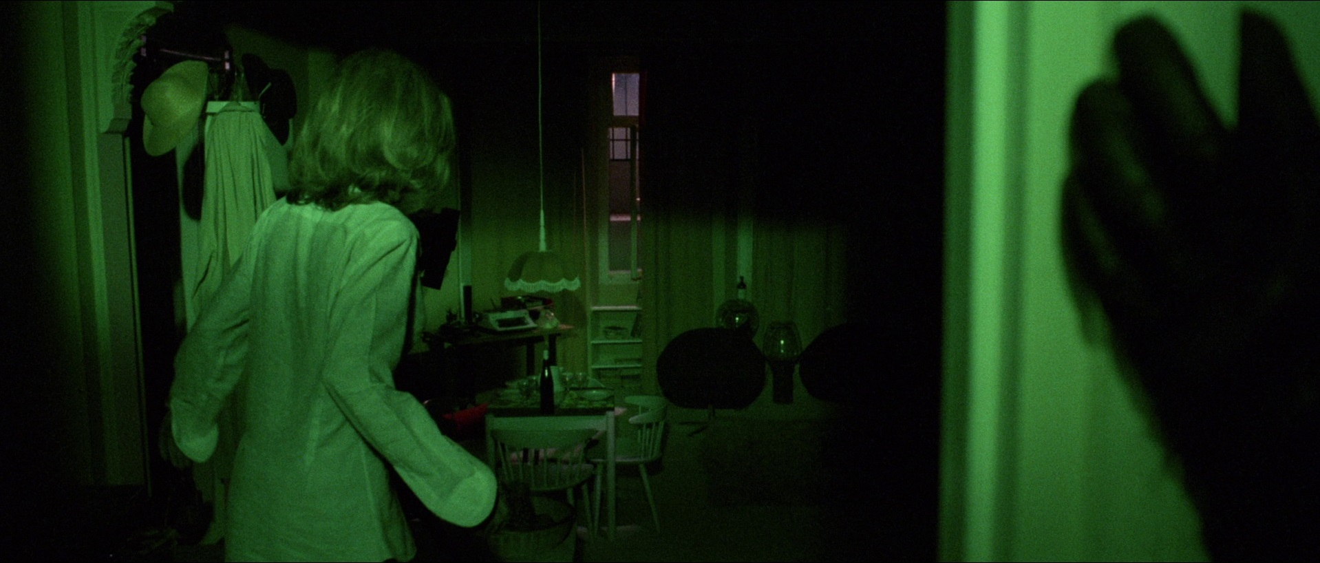 Anita Strindberg in a scene from the movie, The Case of the Scorpion's Tail (1971)